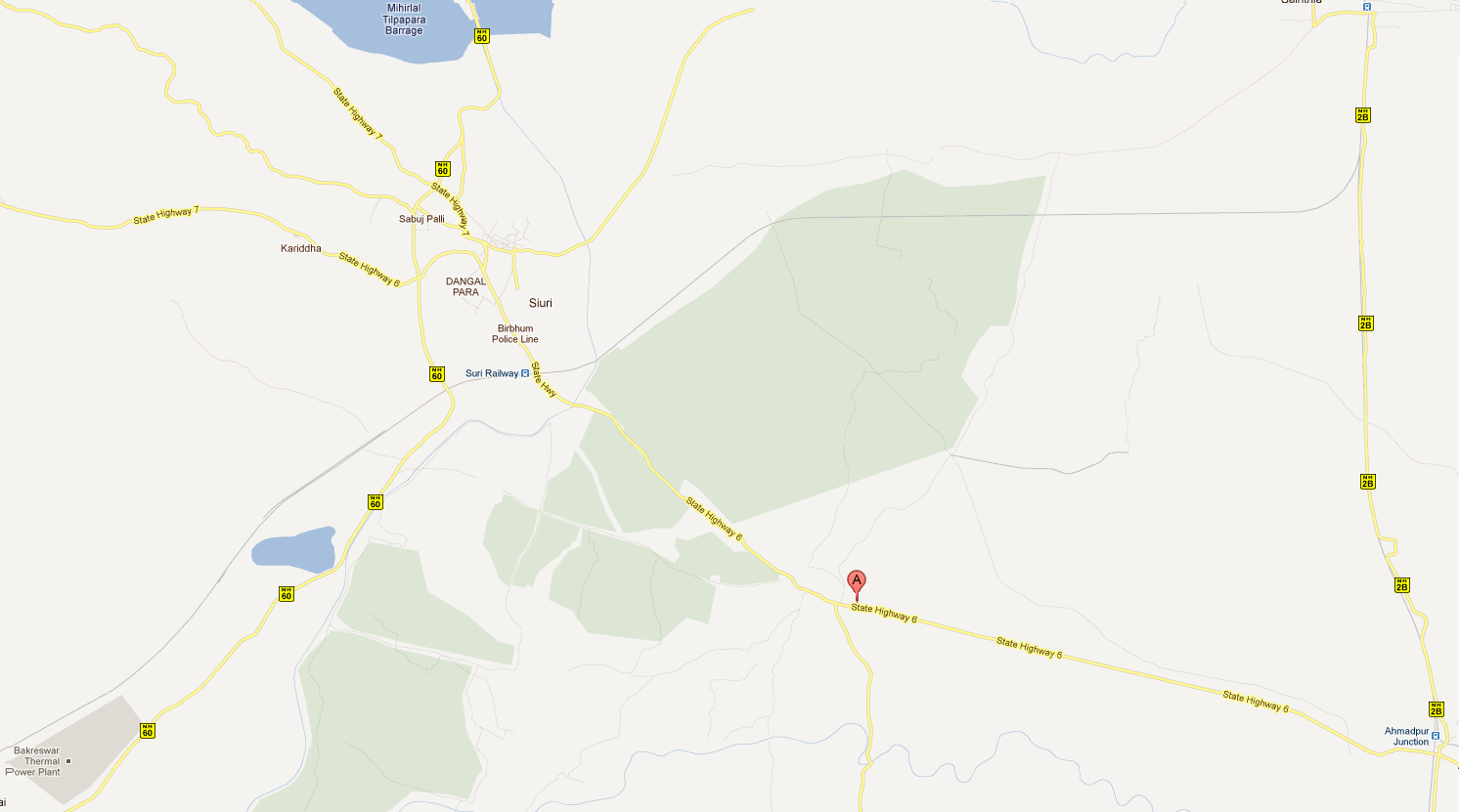 Map view of Kondaipur